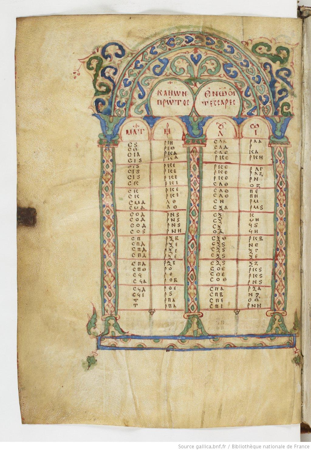 Codex Cyprius, 9th century manuscript of the New Testament in Greek, 017 (Gregory-Aland)